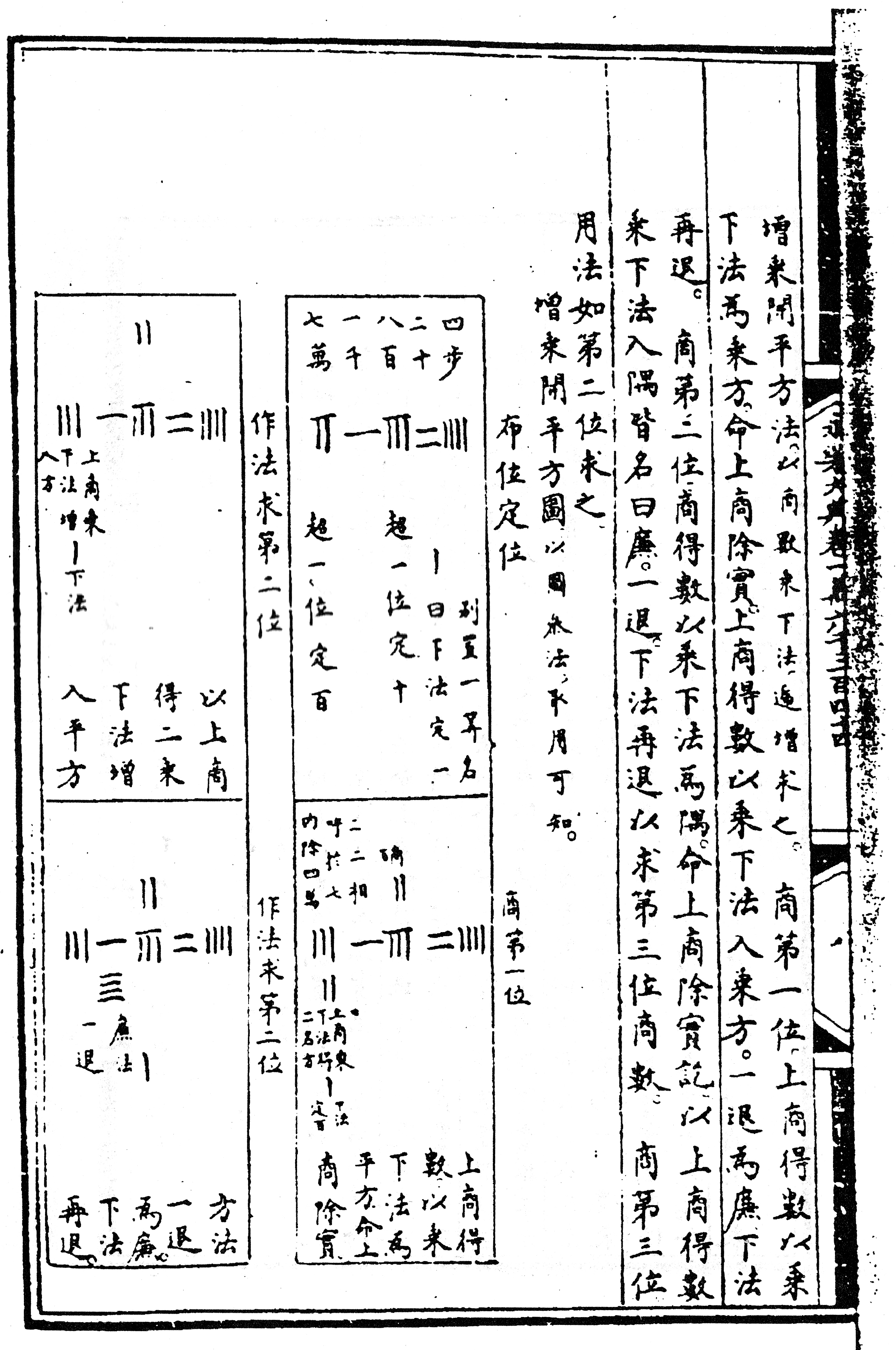 Yang Hui's narration of Jia Xian's additive multiplicative method of square root in Yongle Encyclopedia